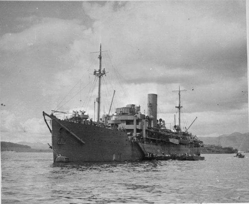 The Royal Navy during the Second World War HMS HILARY with Landing Craft alongside at Greenock.